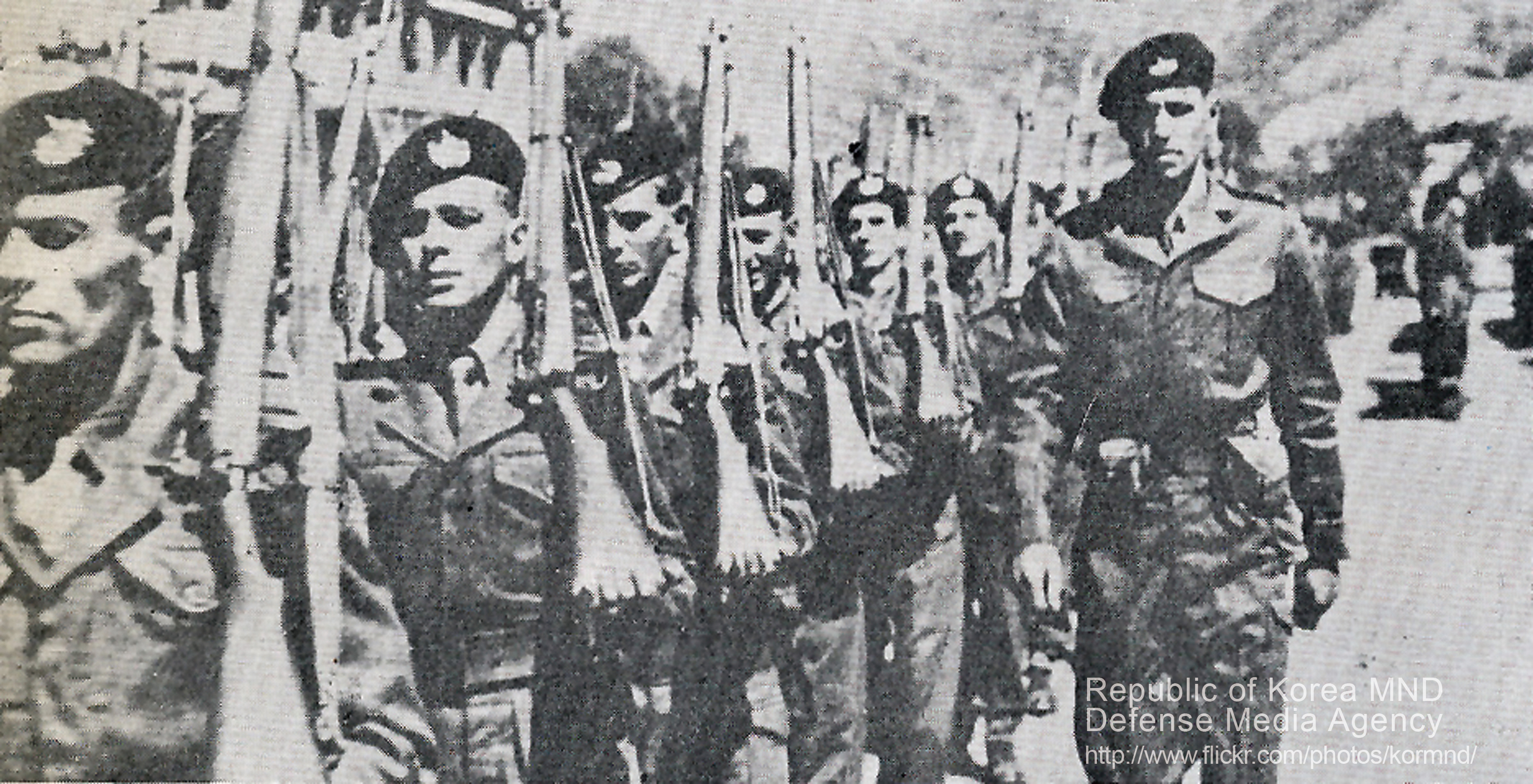 2010 국방화보 Rep. of Korea, Defense Photo Magazine 6·25전쟁에 참전한 영국군이 행진하고 있다. British troops, who took part in the Korean War, are marching.